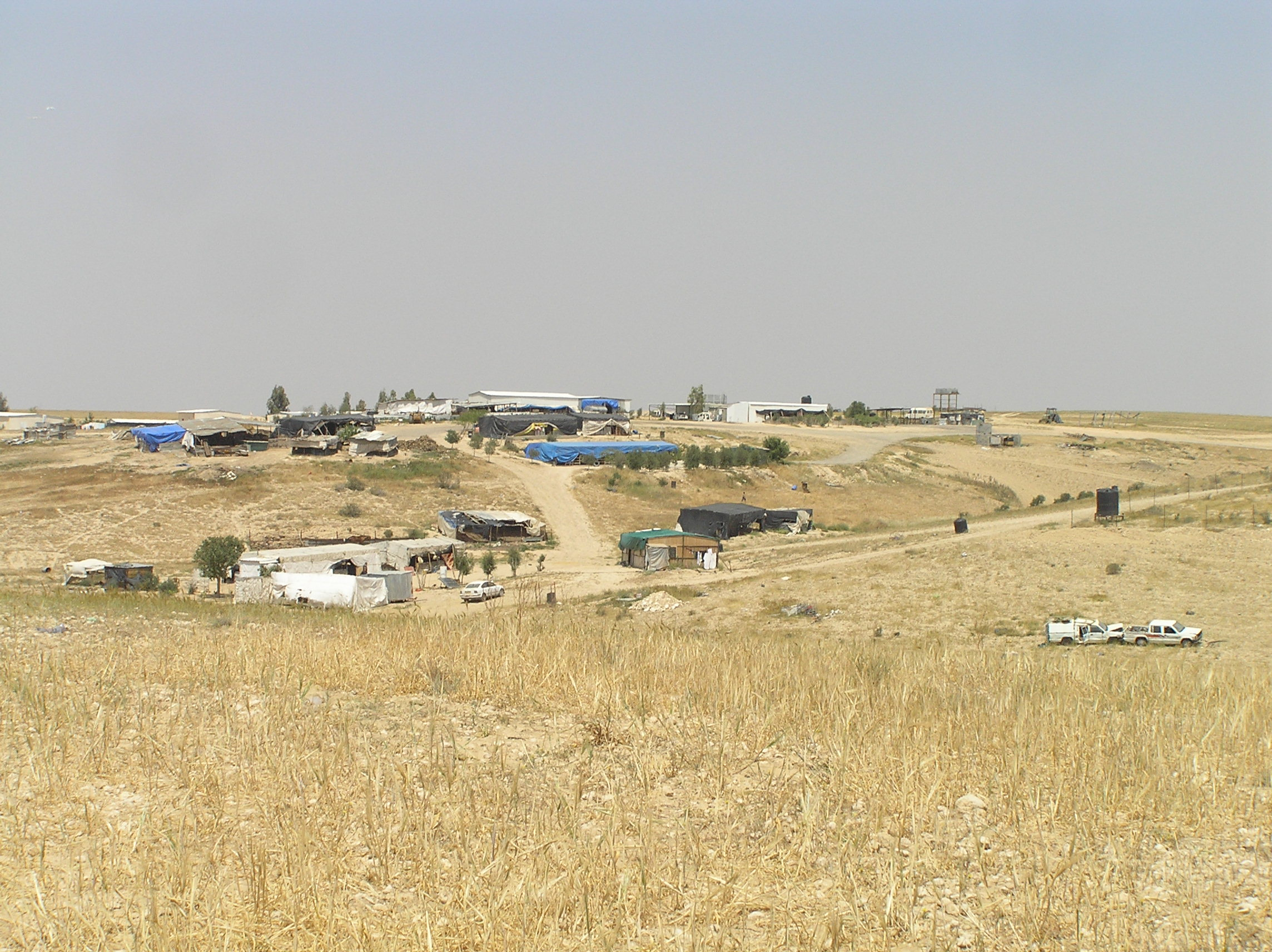 The unrecognized Bedouin village of Al-Araqeeb, few months before its demolition by Israeli law enforcements.